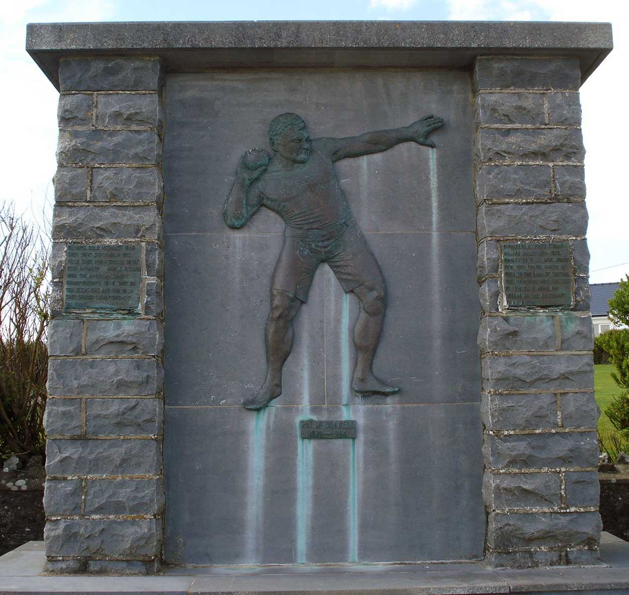 Monument for Pat McDonald at White Strand, Doonbeg, County Clare Ireland. Erected in commoration of his 100th birthday.